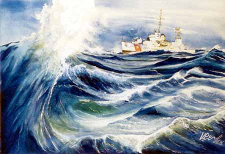 A watercolor painting of United States Coast Guard cutter USCGC Androscoggin entitled "Weather Decks Secured" by Commander Don Van Liew.